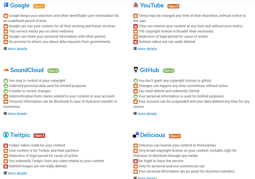 Screenshot showing an example of the ratings given by Terms of Service; Didn't Read